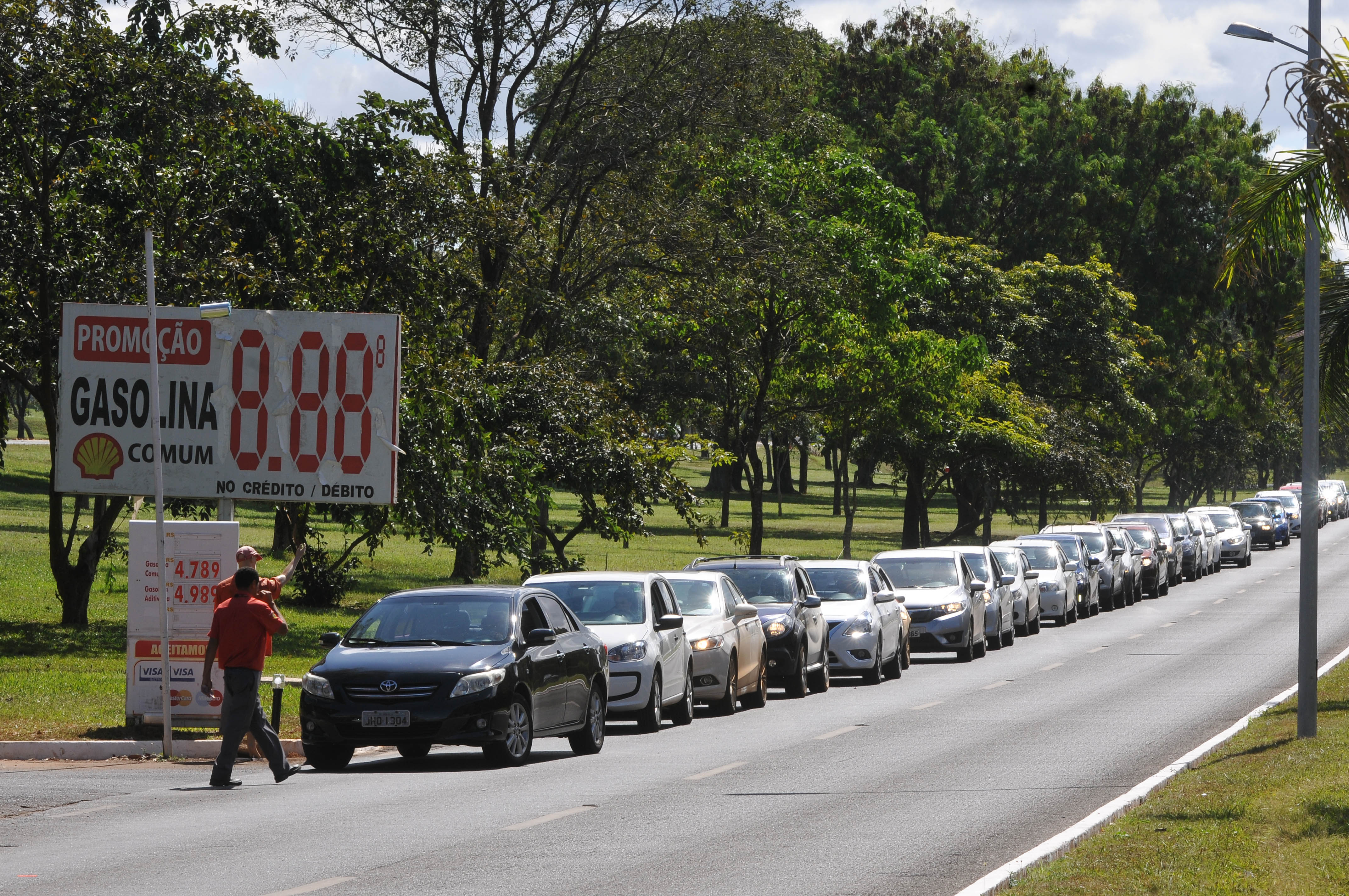 A line of cars to refuel due to a strike in Brazil